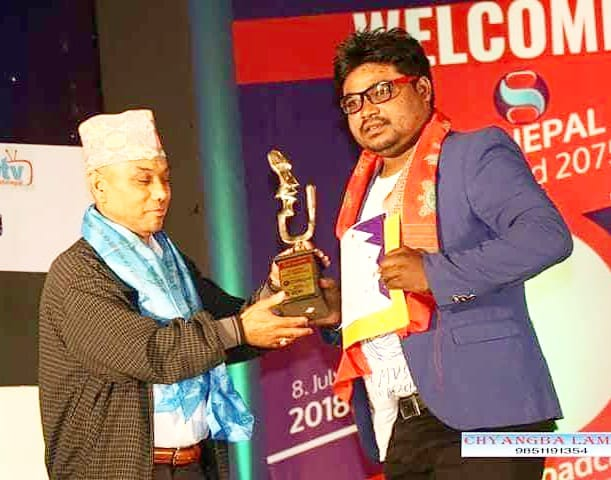 Santosh Raj